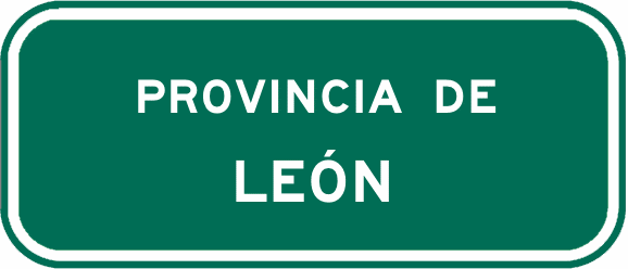 Unknown